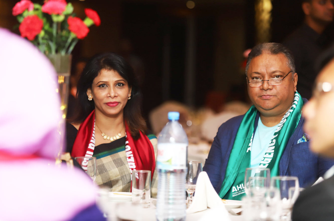 Tony Khan is attending in a conference of Global Academic Partnership Between Regency Hospitality Training Institute (RHTi) & American Hotel & Lodging Educational Institute